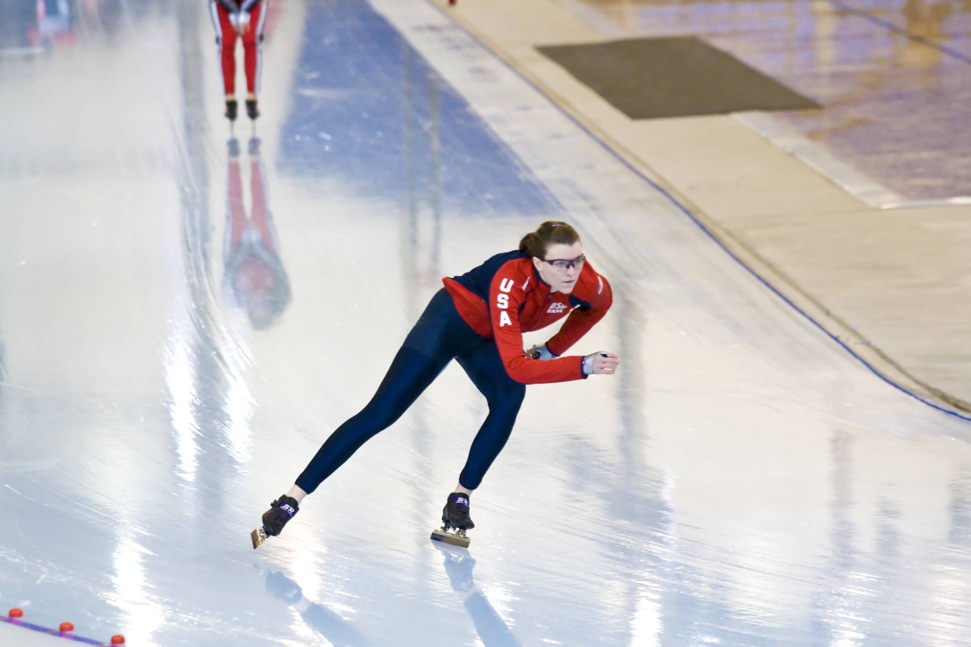 Heather Richardson, Team USA